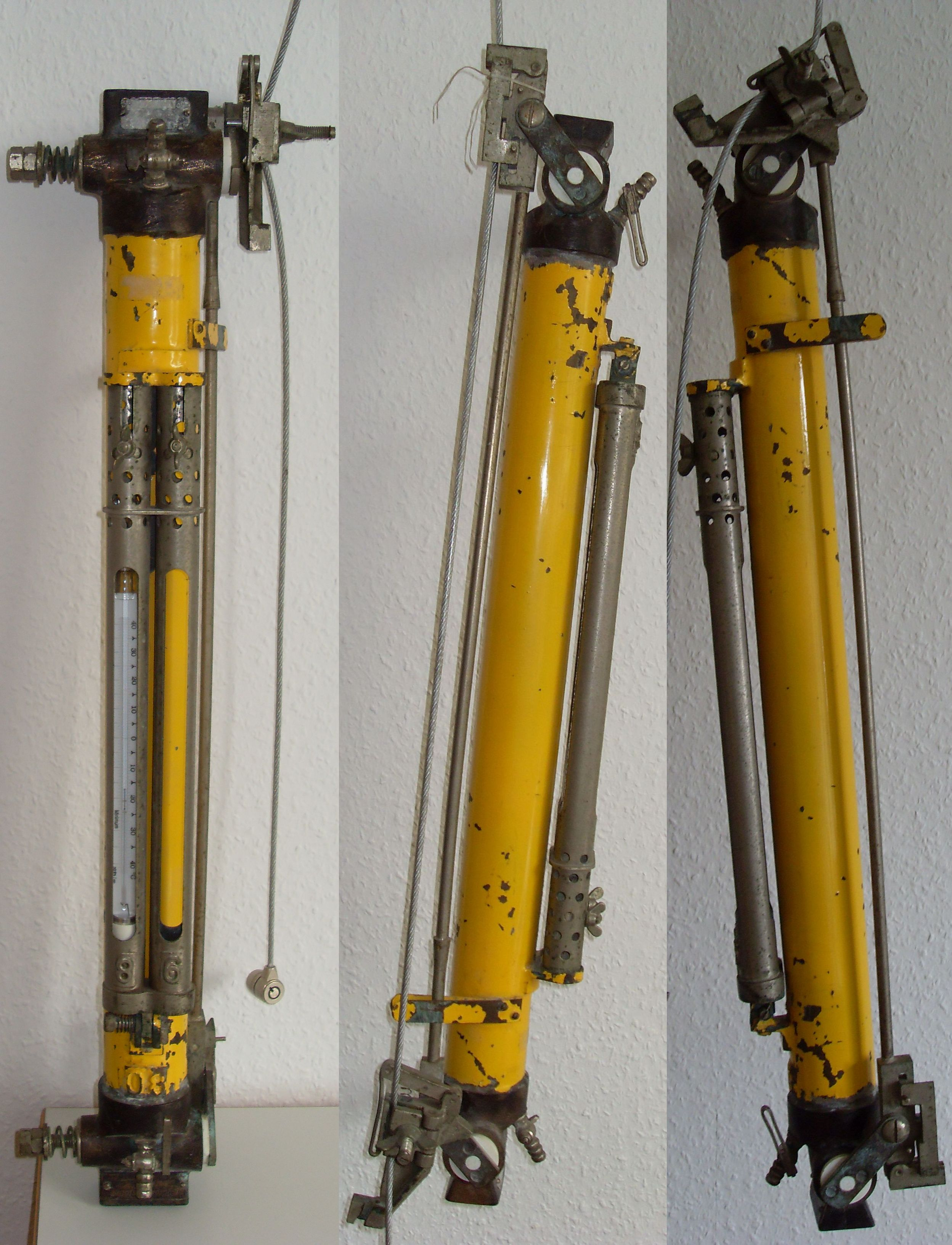 Nansen Bottle: Left front view; center: open; right closed